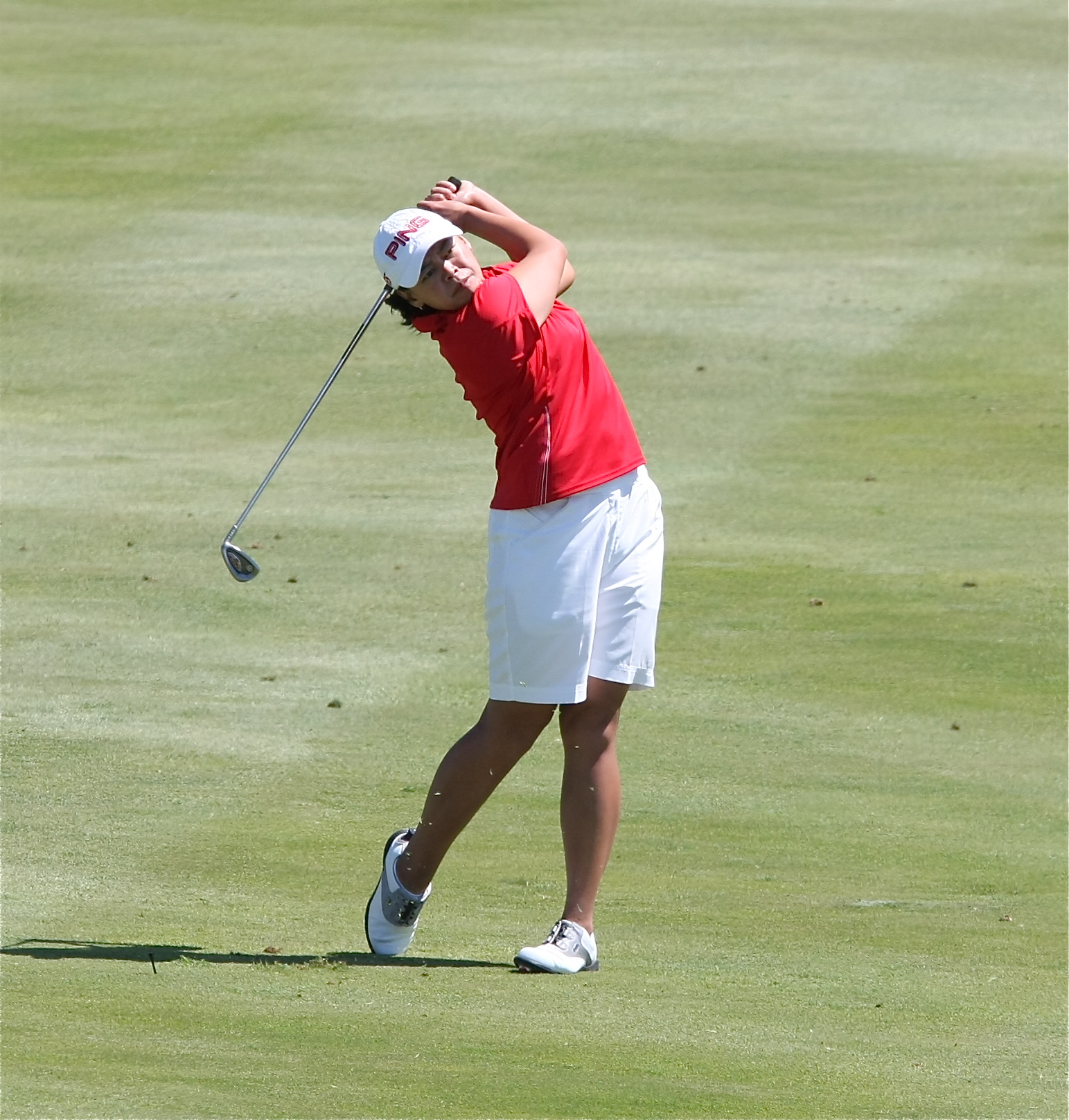 HAVRE DE GRACE, MD - JUNE 02: Dorothy Delasin (PHI) during pro-am before 2008 LPGA Championship held at Bulle Rock Golf Course, on June 2, 2008 in Havre de Grace, Maryland. (Photo by Keith Allison)